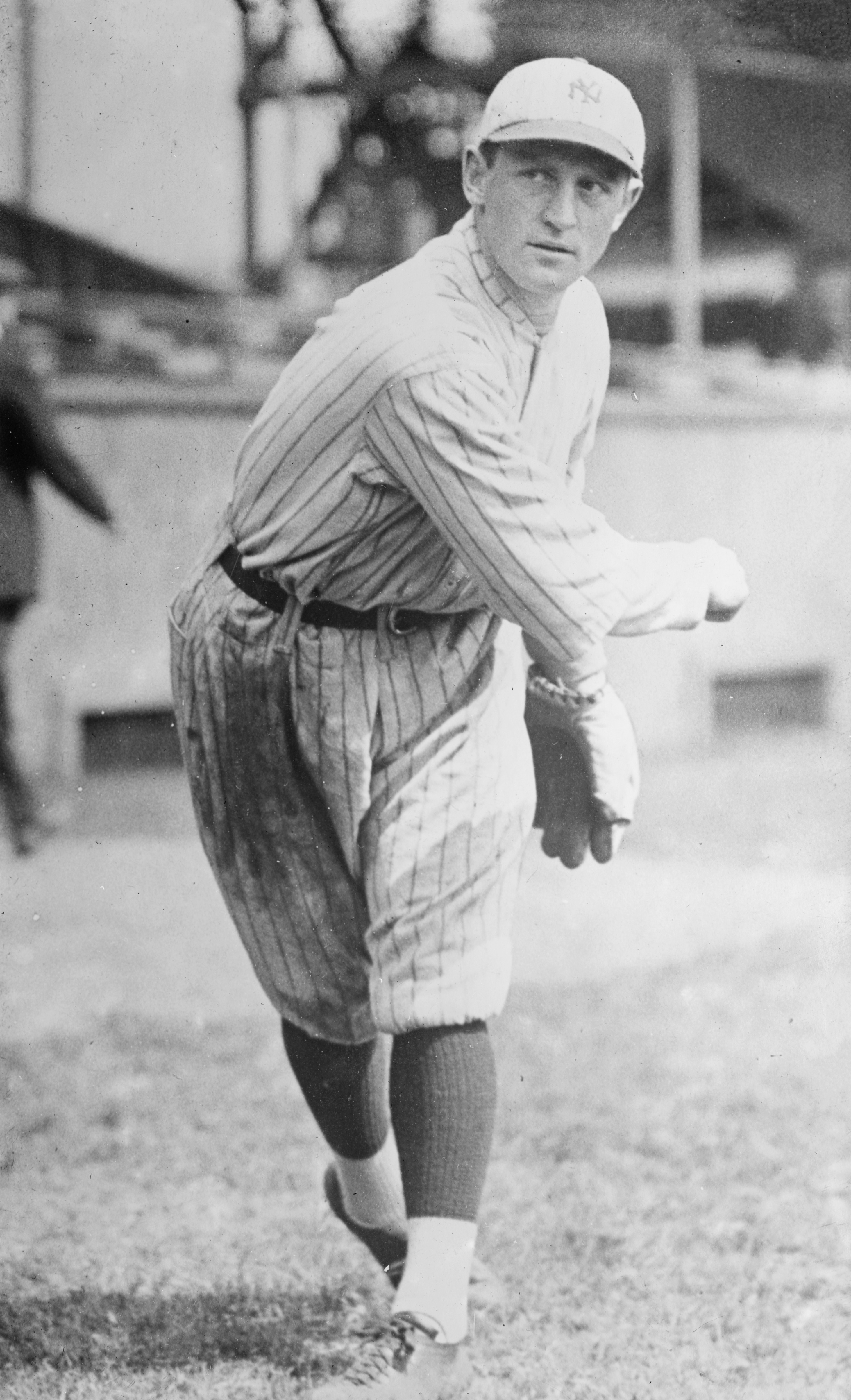 Title: Hinkey Haines, New York AL (baseball) Abstract/medium: 1 negative : glass ; 5 x 7 in. or smaller.